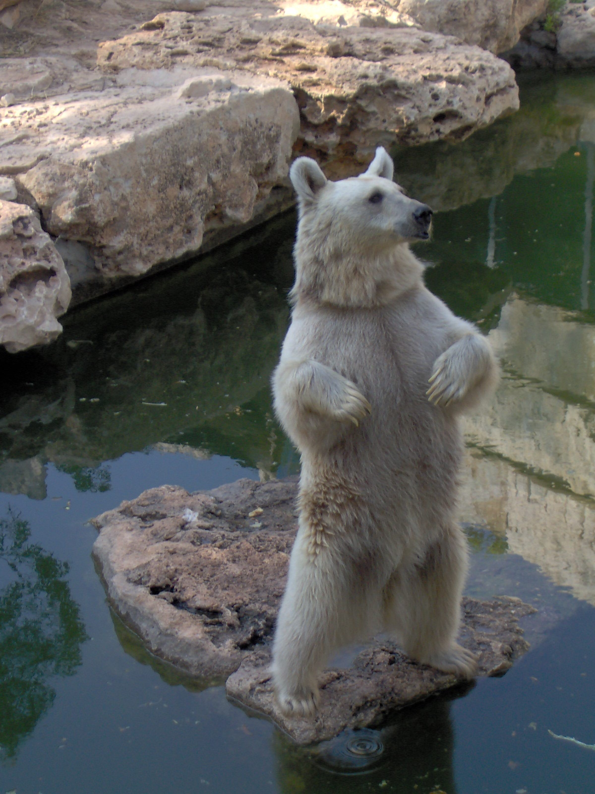 Picture of a bear standing in the Biblical Zoo of Jerusalem